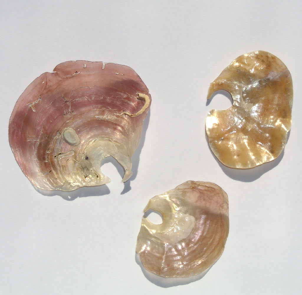 Saddle oyster.